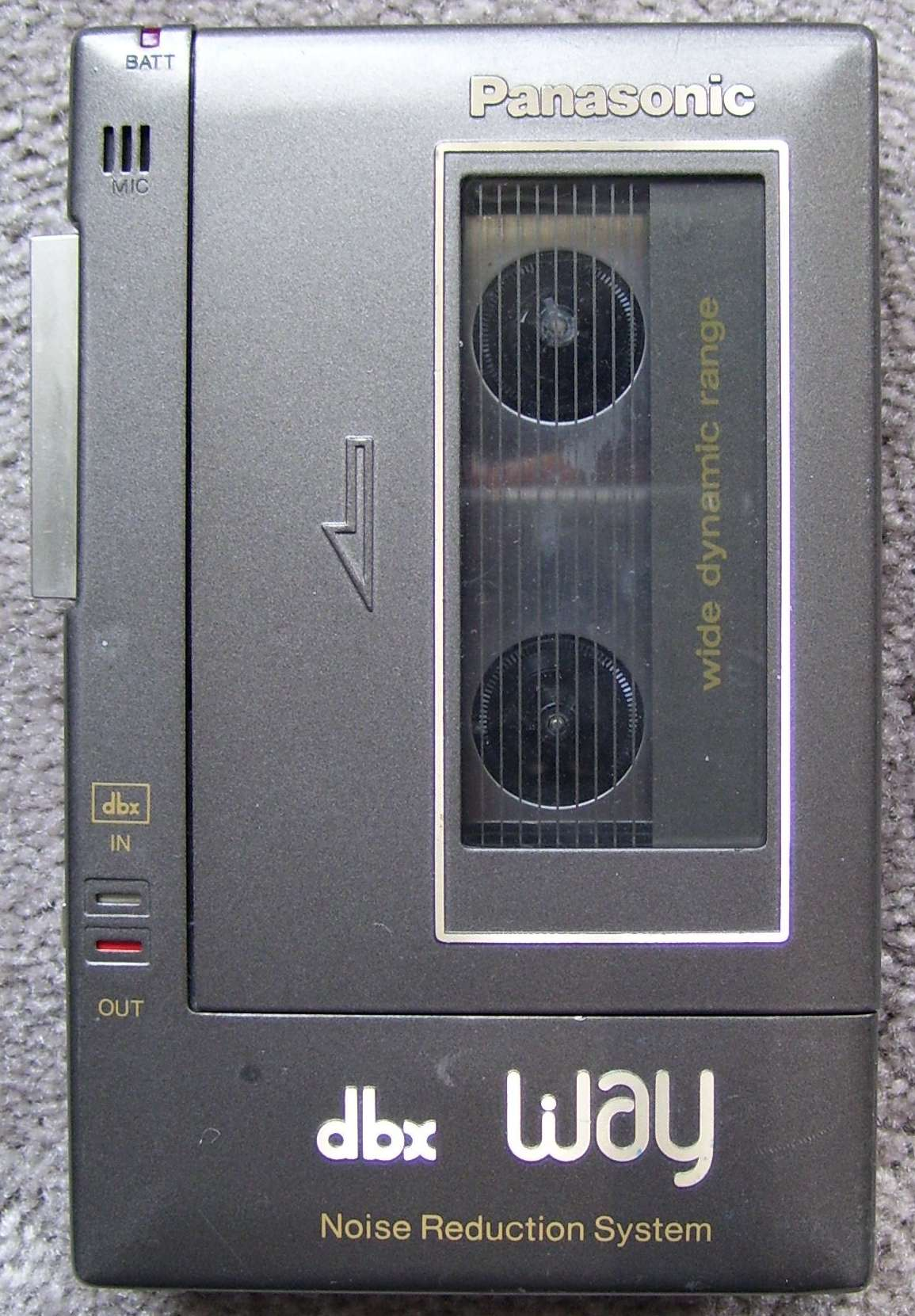 Panasonic portable cassette player RQ-J20X with dbx noise reduction, 1983. From own collection. Taken by ProhibitOnions, 2007.